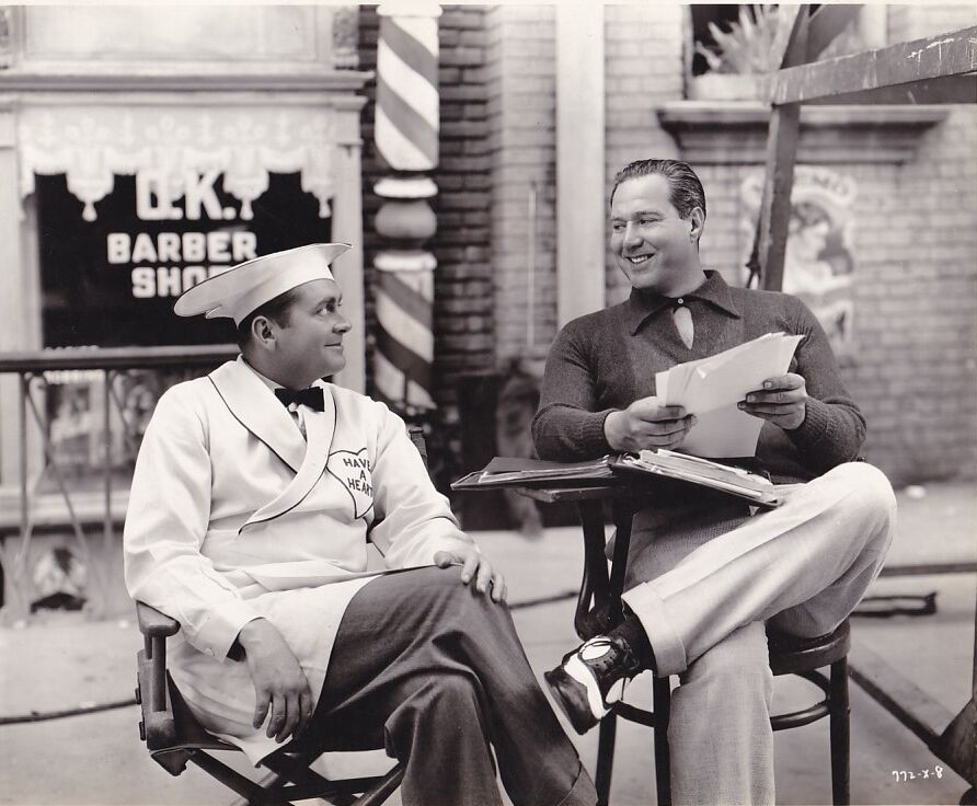 Press photograph of James Dunn and David Butler on the set of "Have a Heart", 1934 film.